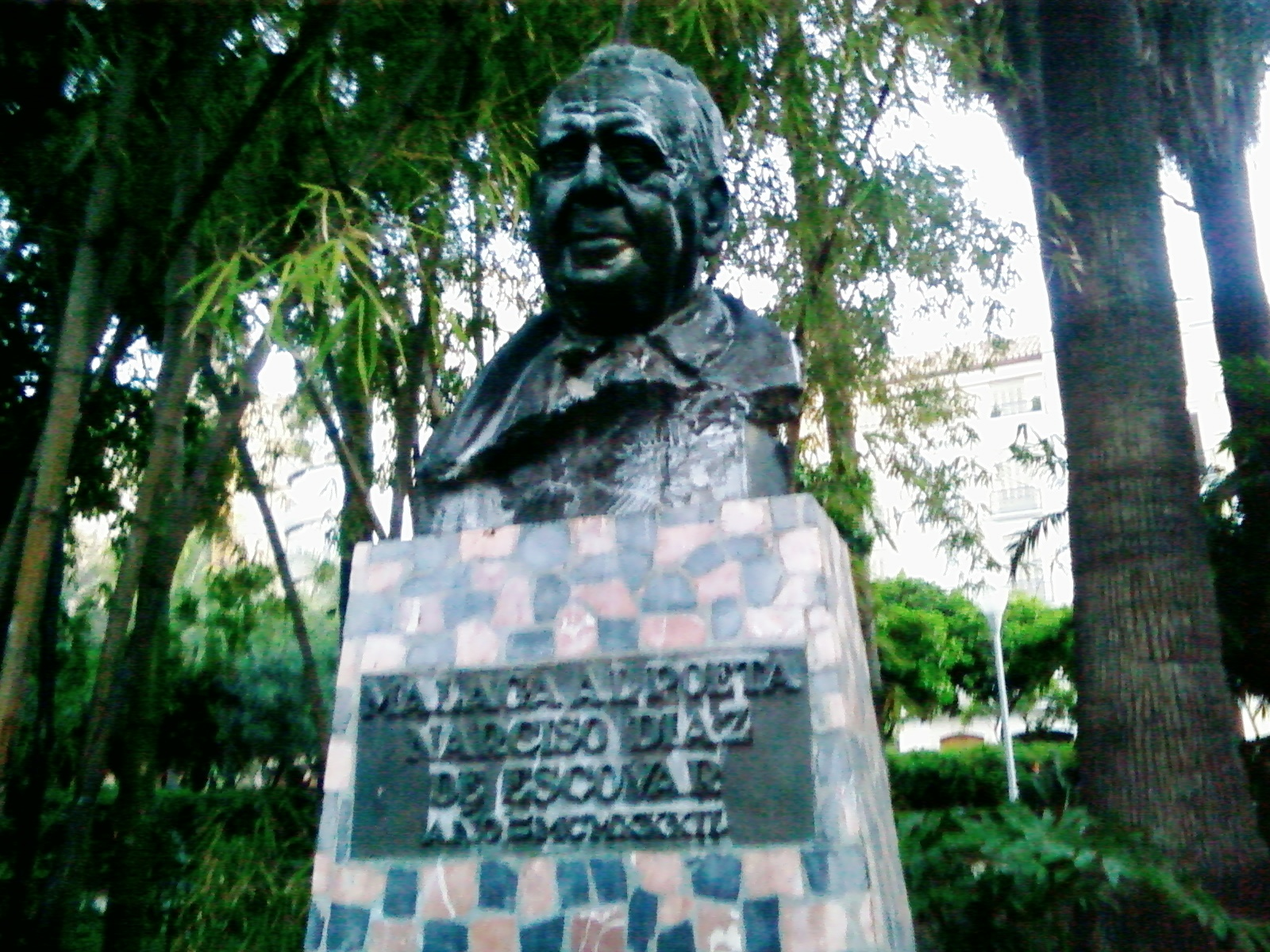 Monument to Narciso Díaz de Escovar in Málaga, Spain